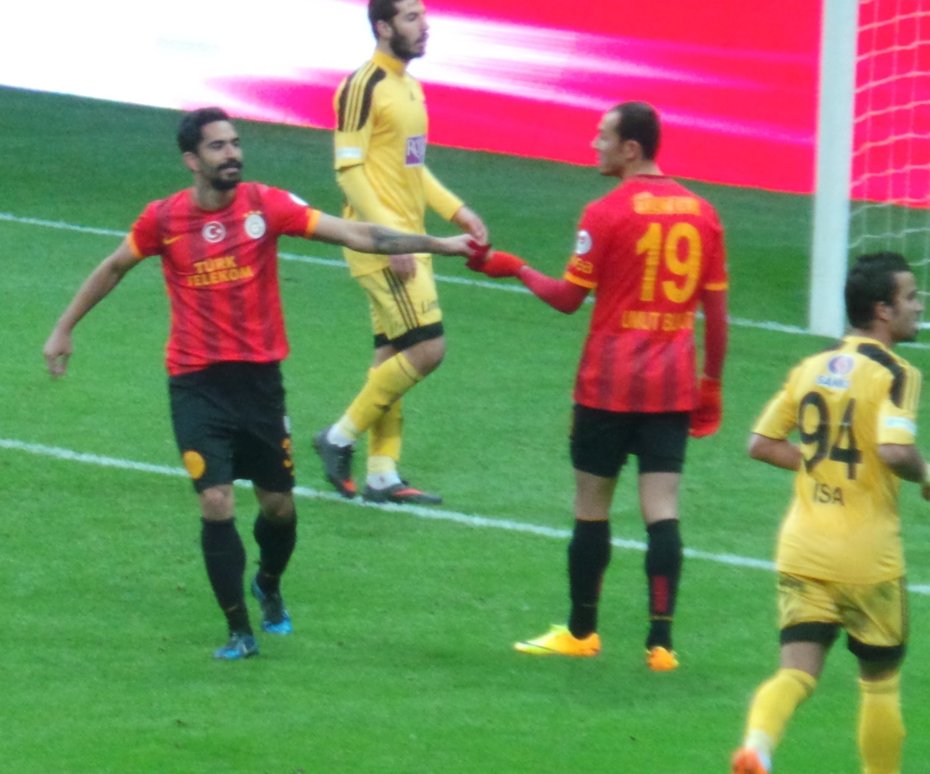 Yiğit Gökoğlan ve Umut Bulut Antep BB maçında